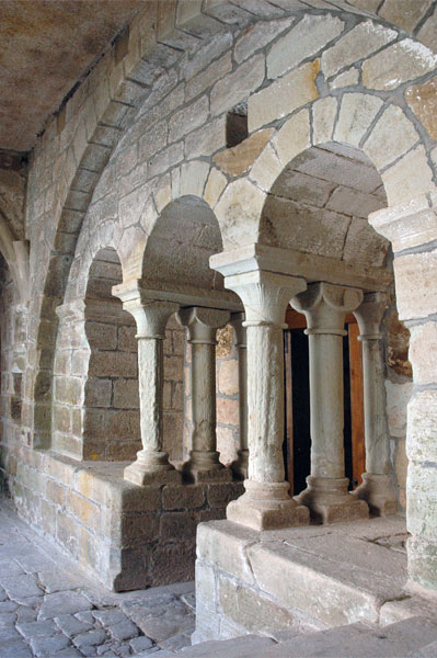 Saint-Michel de Grandmont priory. France